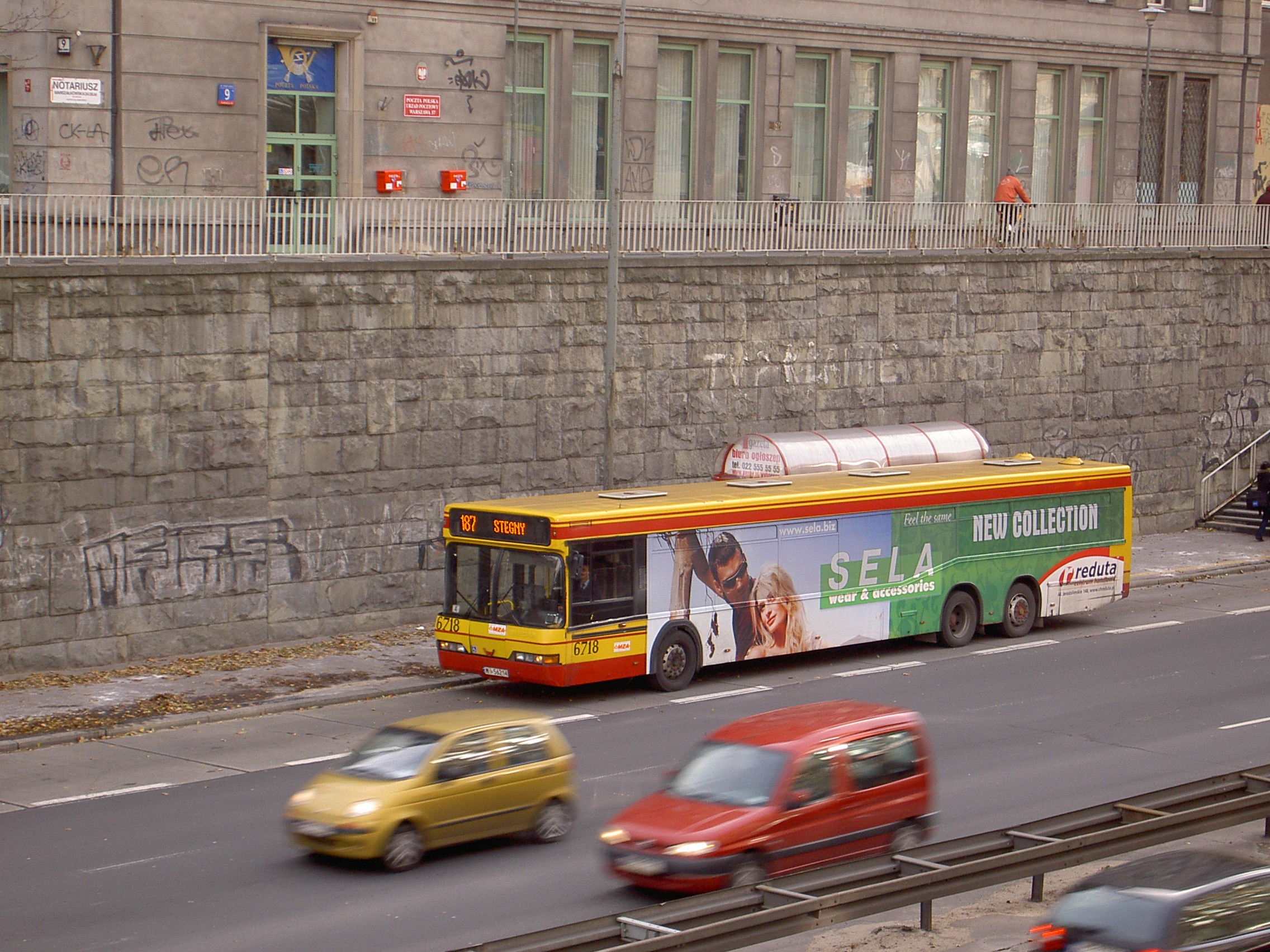 Neoplan N4020 bus (#6718) riding on line 187 in Warsaw, Poland. Built 1997, MZA Warszawa operator. Picture taken by in 3 november 2006.